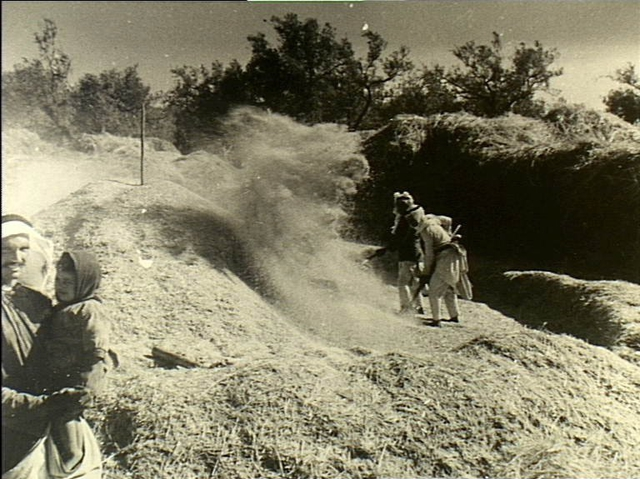 Palestine. 1941-03. Arabs winnowing their corn crop using the simple method of tossing it in the air and allowing the breeze to separate grain from chaff by blowing the chaff away.